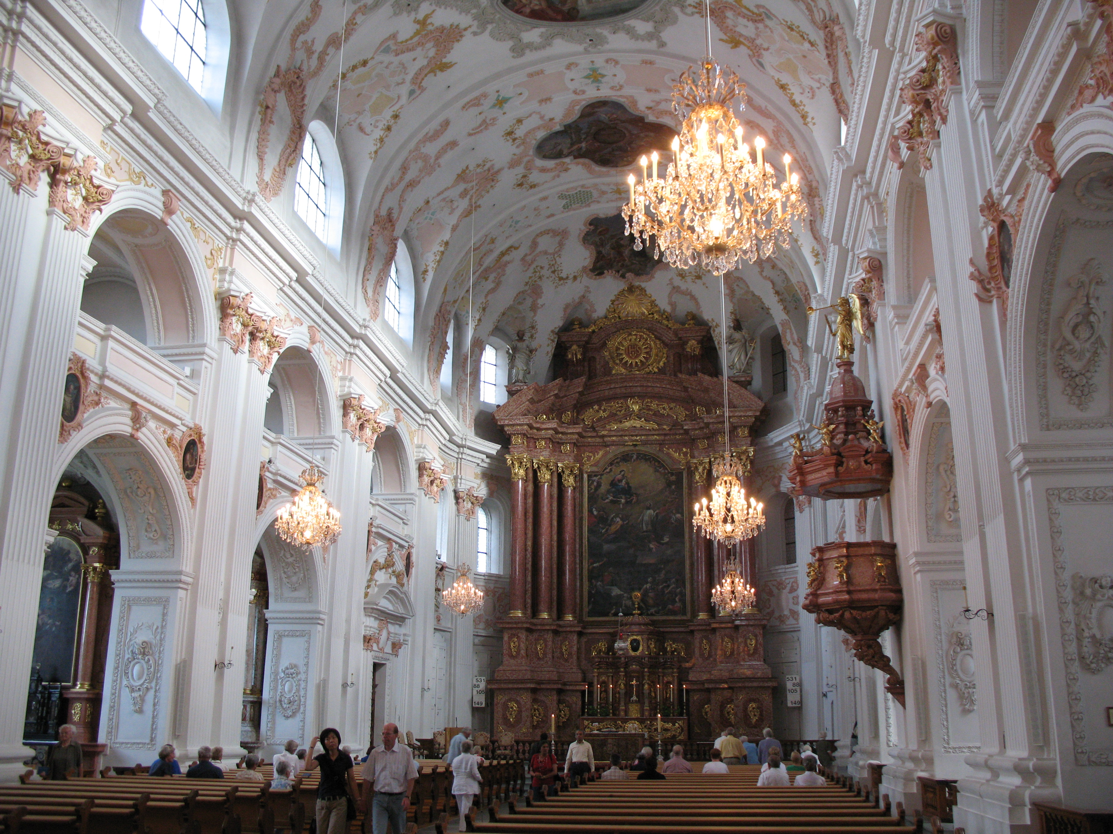 Jesuit Church, Luzern, Switzerland